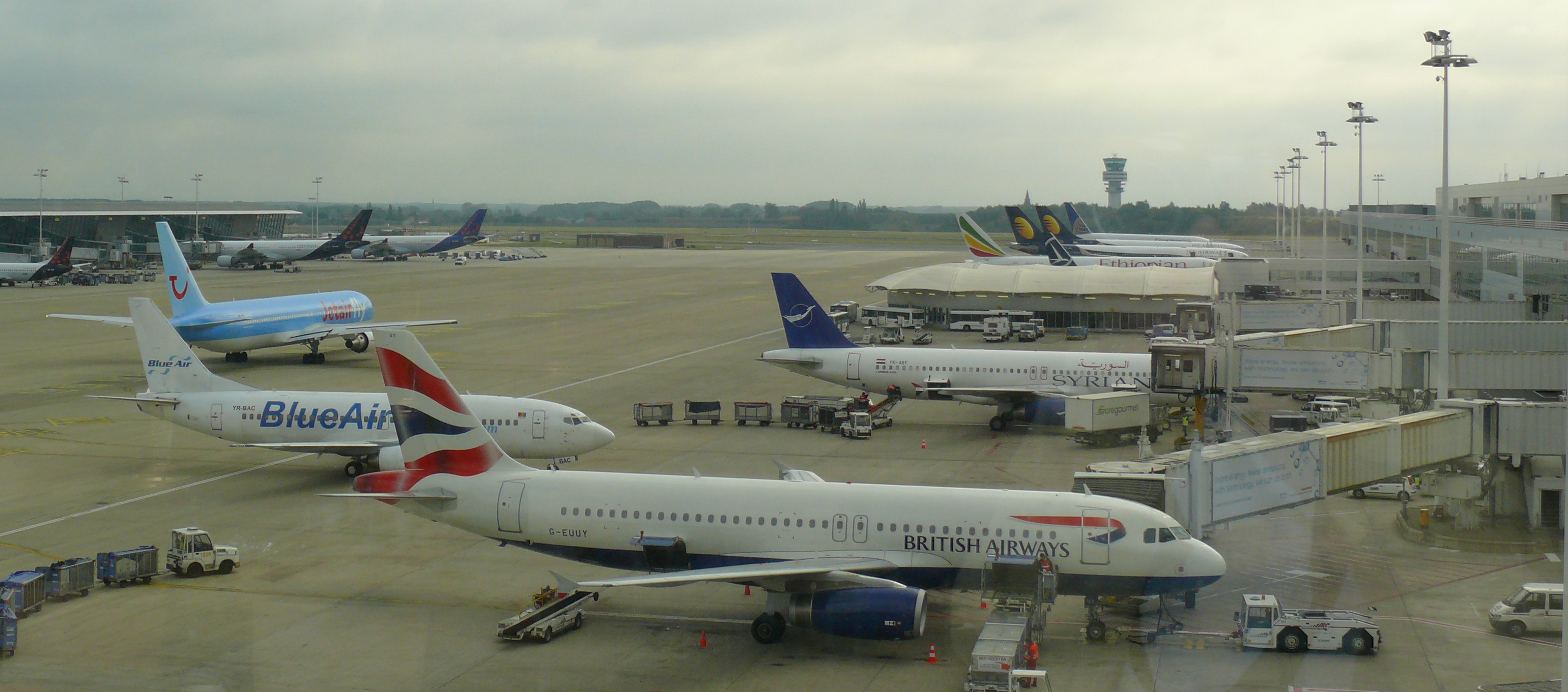 British Airways G-EUUY Airbus A320-232, Blue Air YR-BAC Boeing 737-377, Syrian Air YK-AKF Airbus A320-232 and an unidentified JetAirfly plane at Zaventem Brussels Airport.